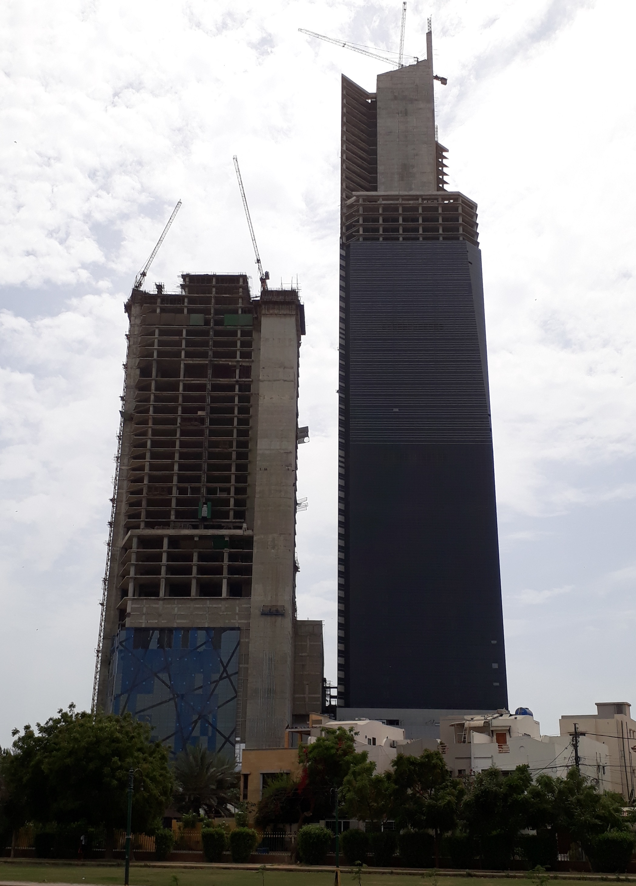 Bahria Icon as of August 2018, soon to be the tallest building in Pakistan